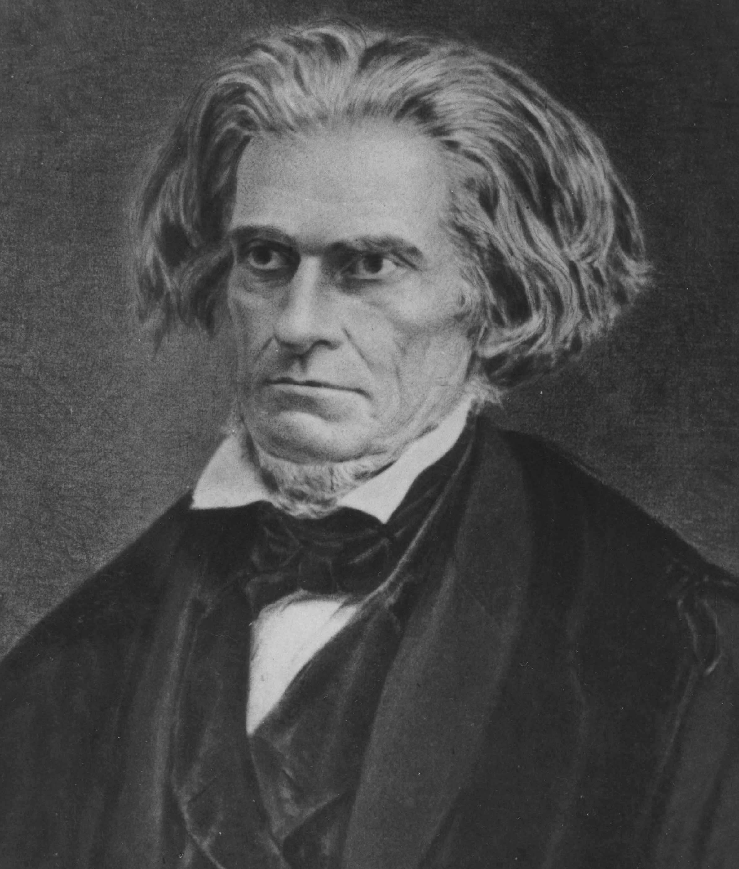 John Caldwell Calhoun.